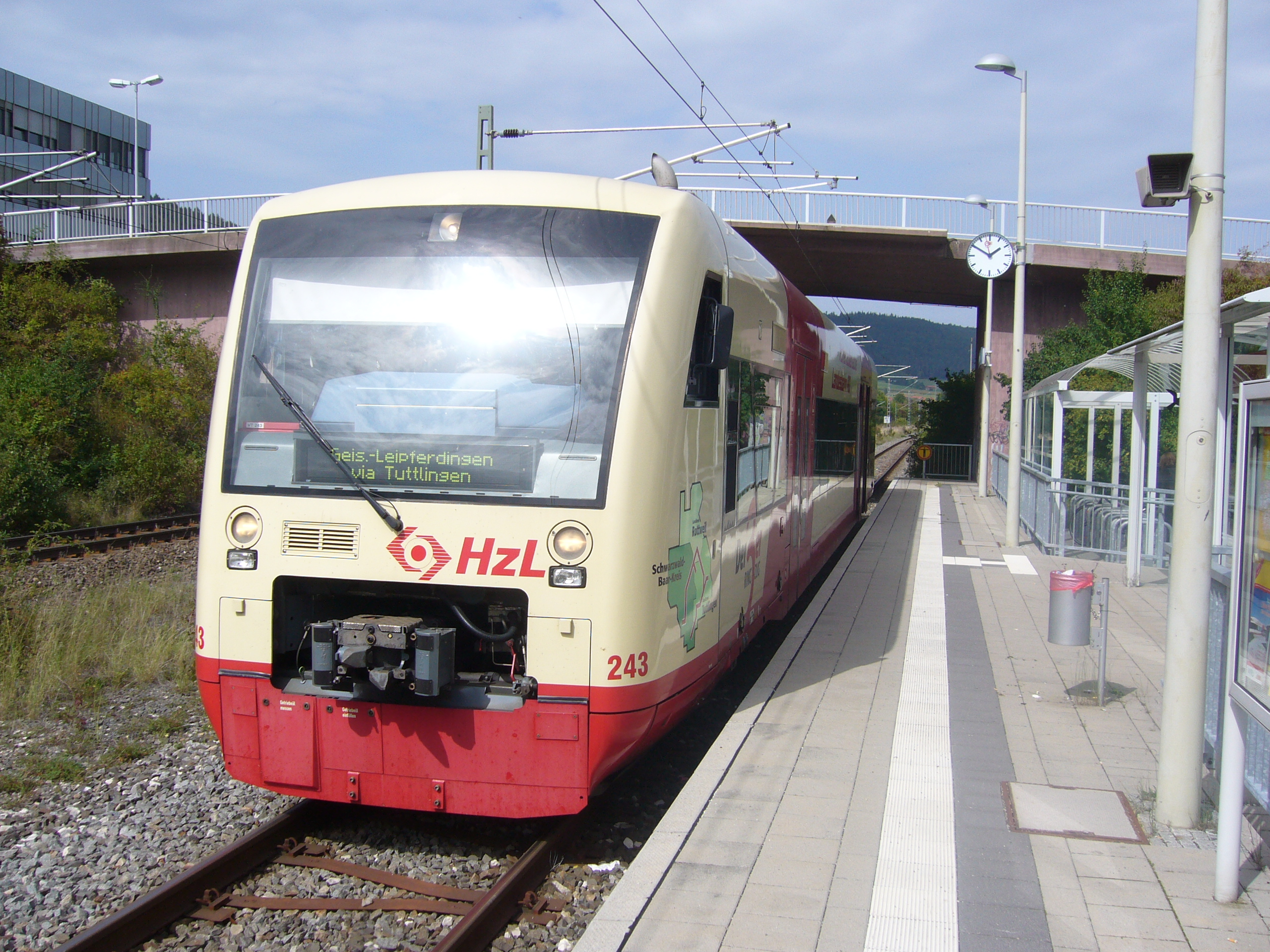 Ringzug train at Wurmlingen Nord, Germany